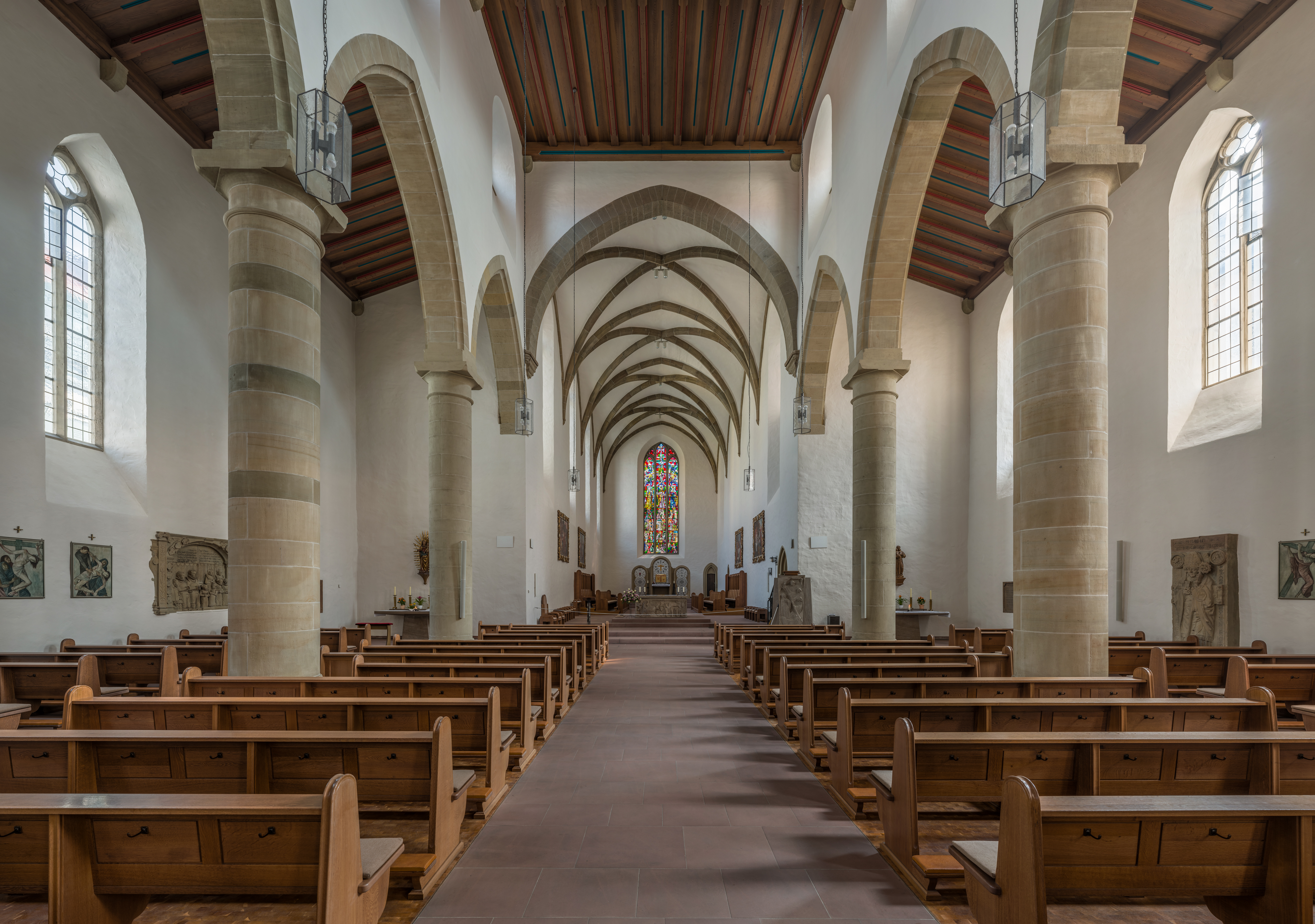 The nave of the Franziskanerkirche in WürzburgThis is a photograph of an architectural monument.